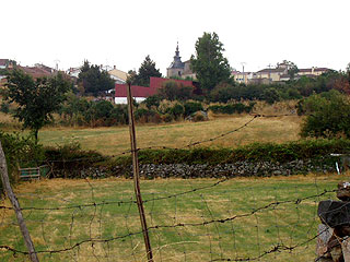 View of Aldeavieja from the road of Blascoeles in late summer 2007.